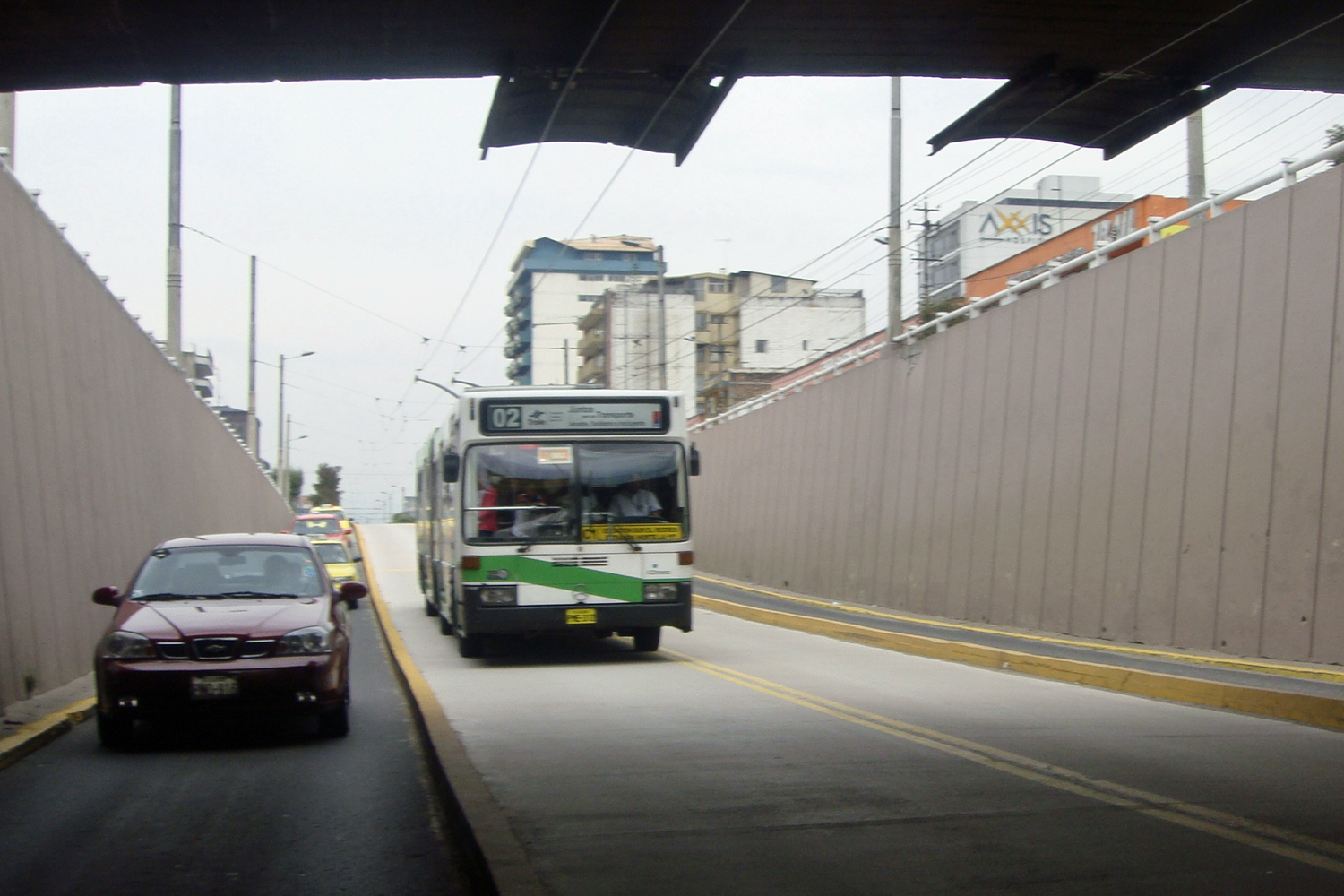 Quito's trolleybus running on exclusive BRT lanes with underpass crossings. In this photo, C1 (on yellow sign in windshield) is the route number, while 02 is only the fleet number of this specific vehicle.